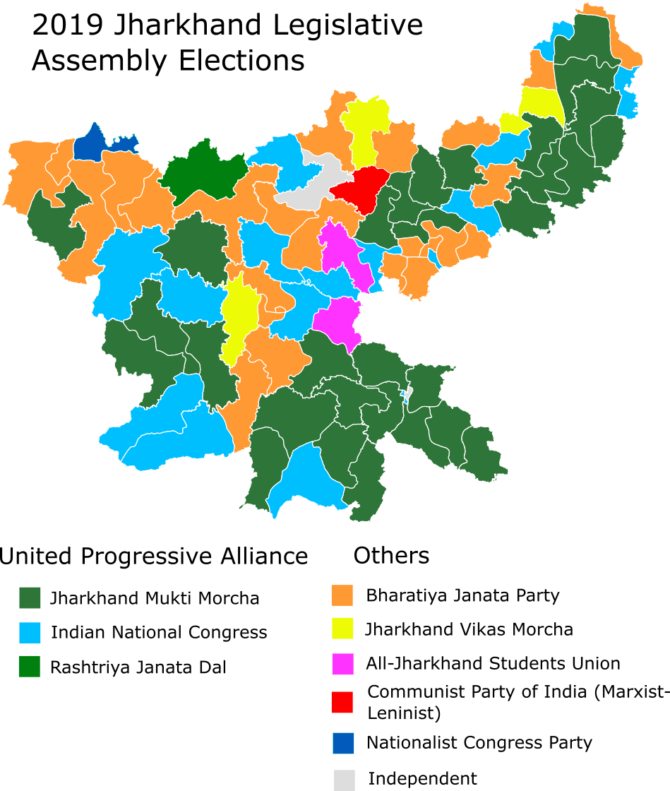 Result of Jharkhand Legislative Assembly election 2019